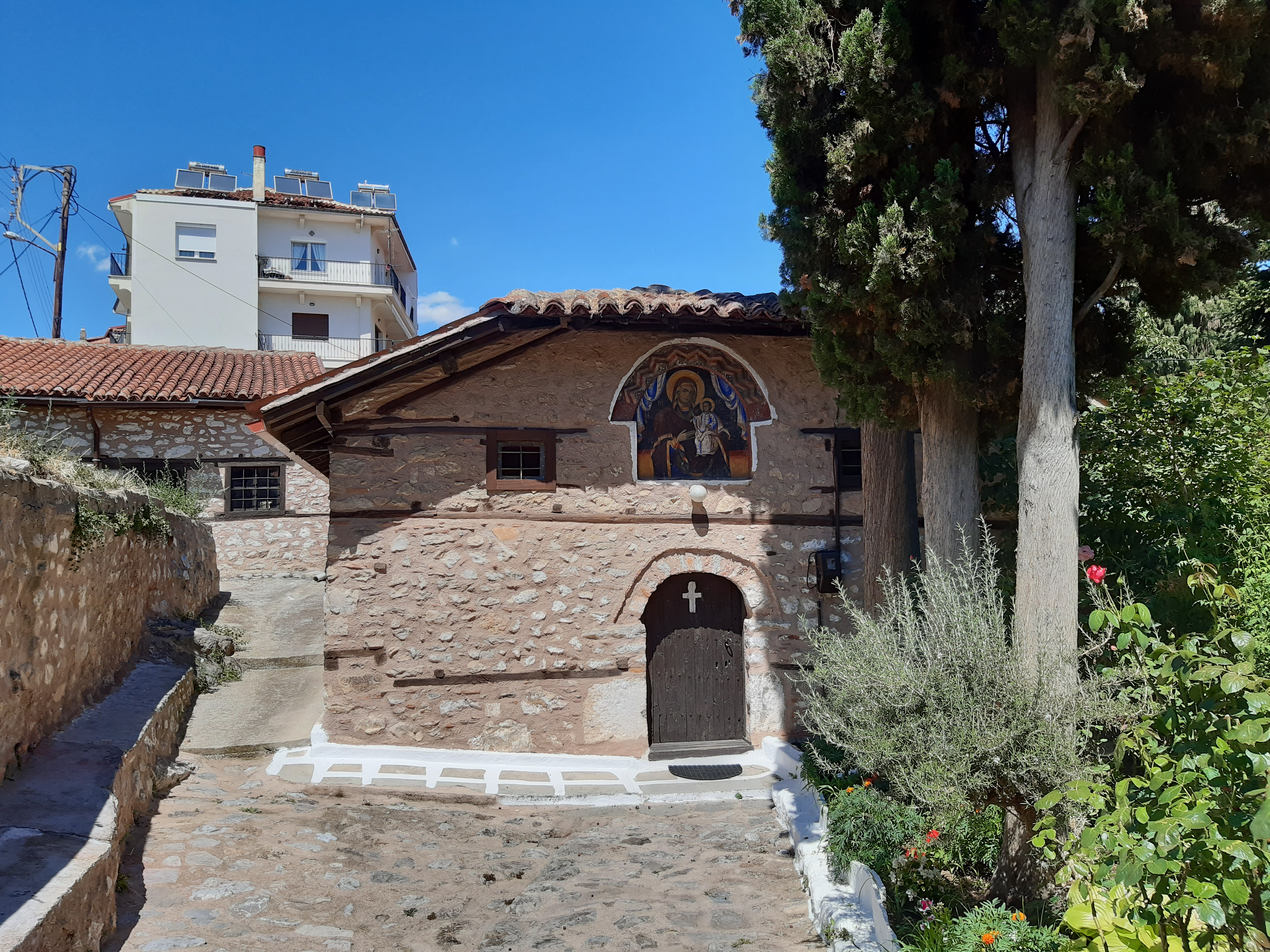 Saint Mary Life-giving Spring Church, Kastoria